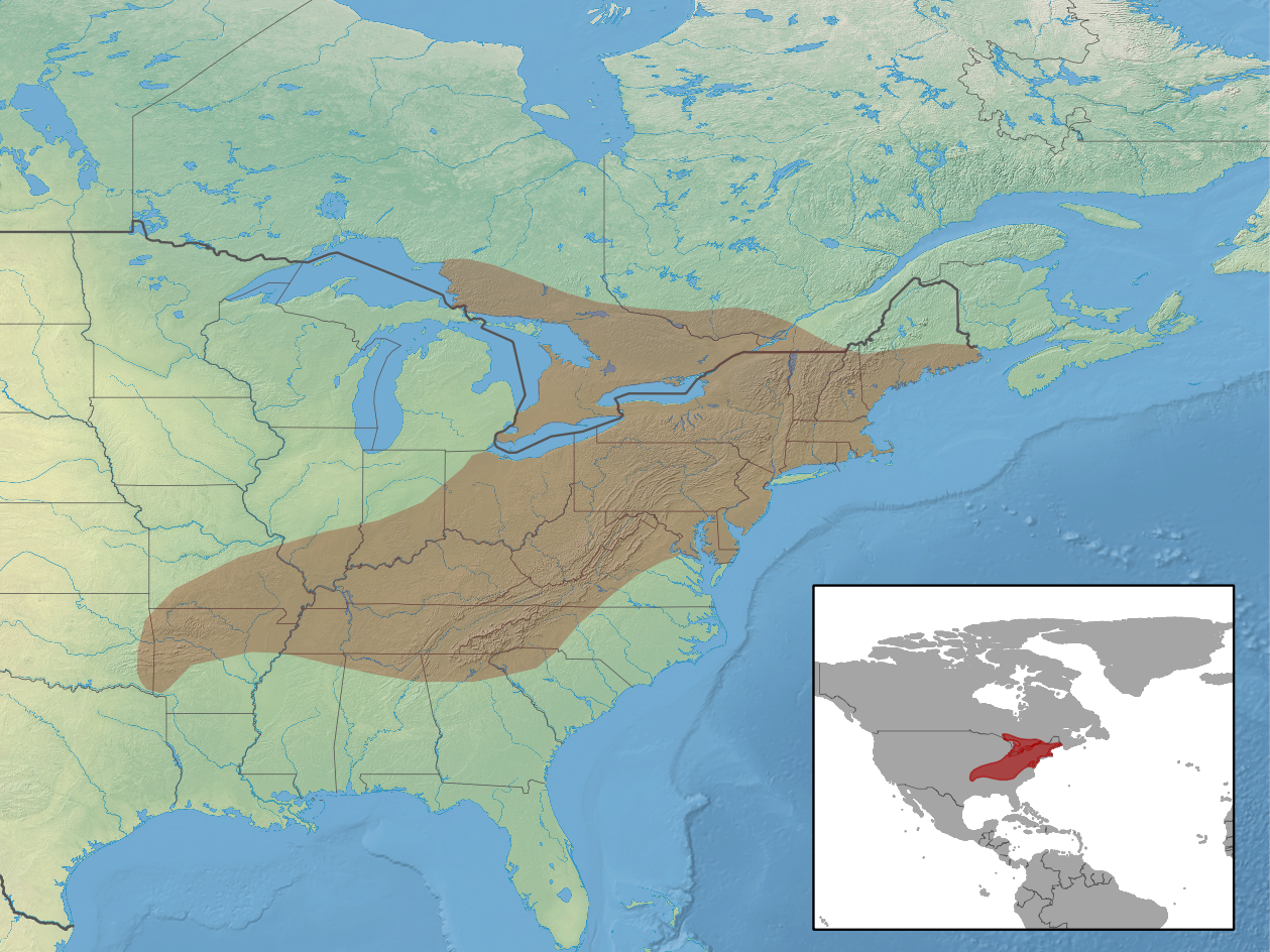 geographic distribution of Myotis leibii